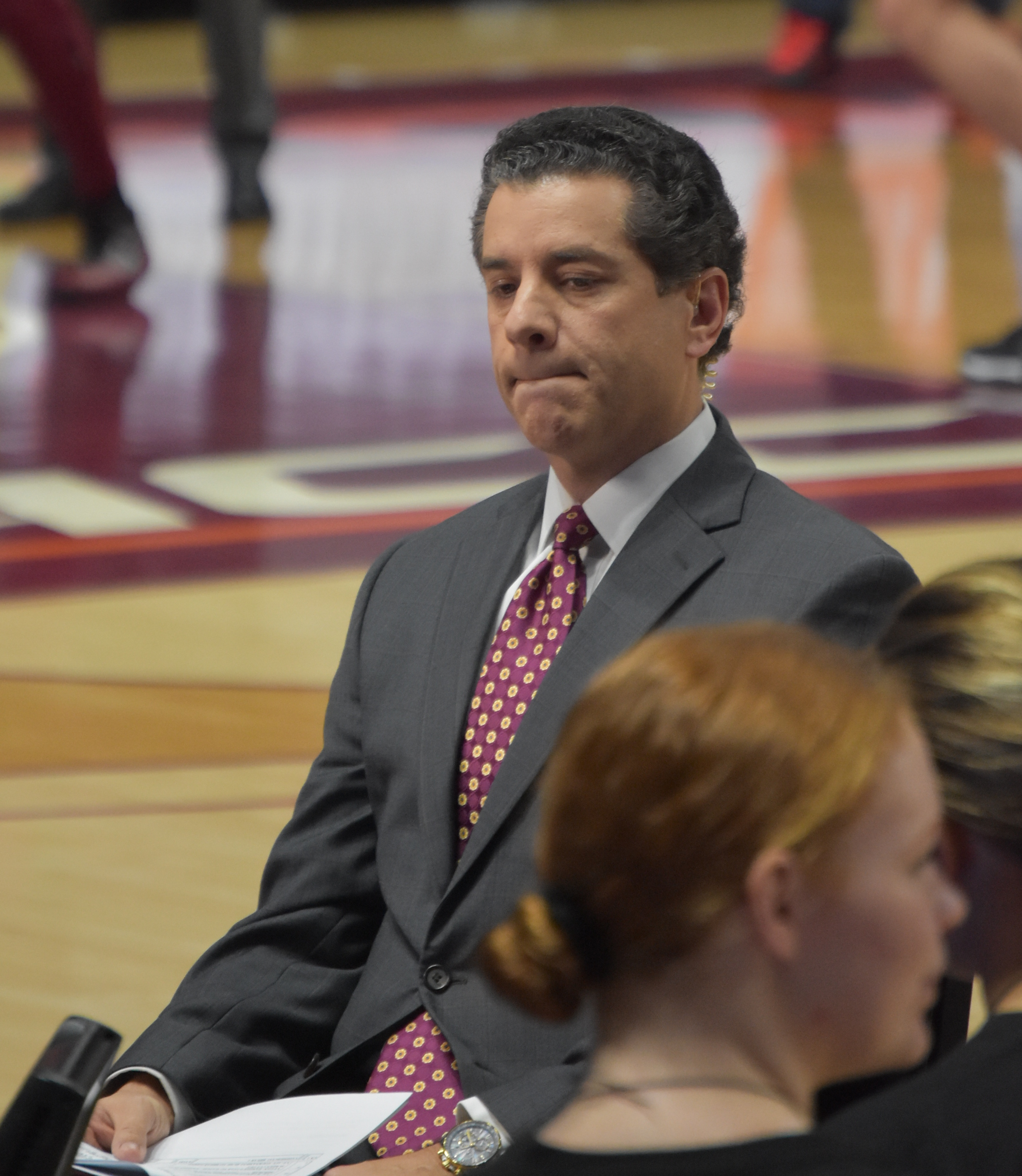 The ACC Network Play by Play Voice Tom Werme was in Blacksburg for the Hokies and Seminoles.